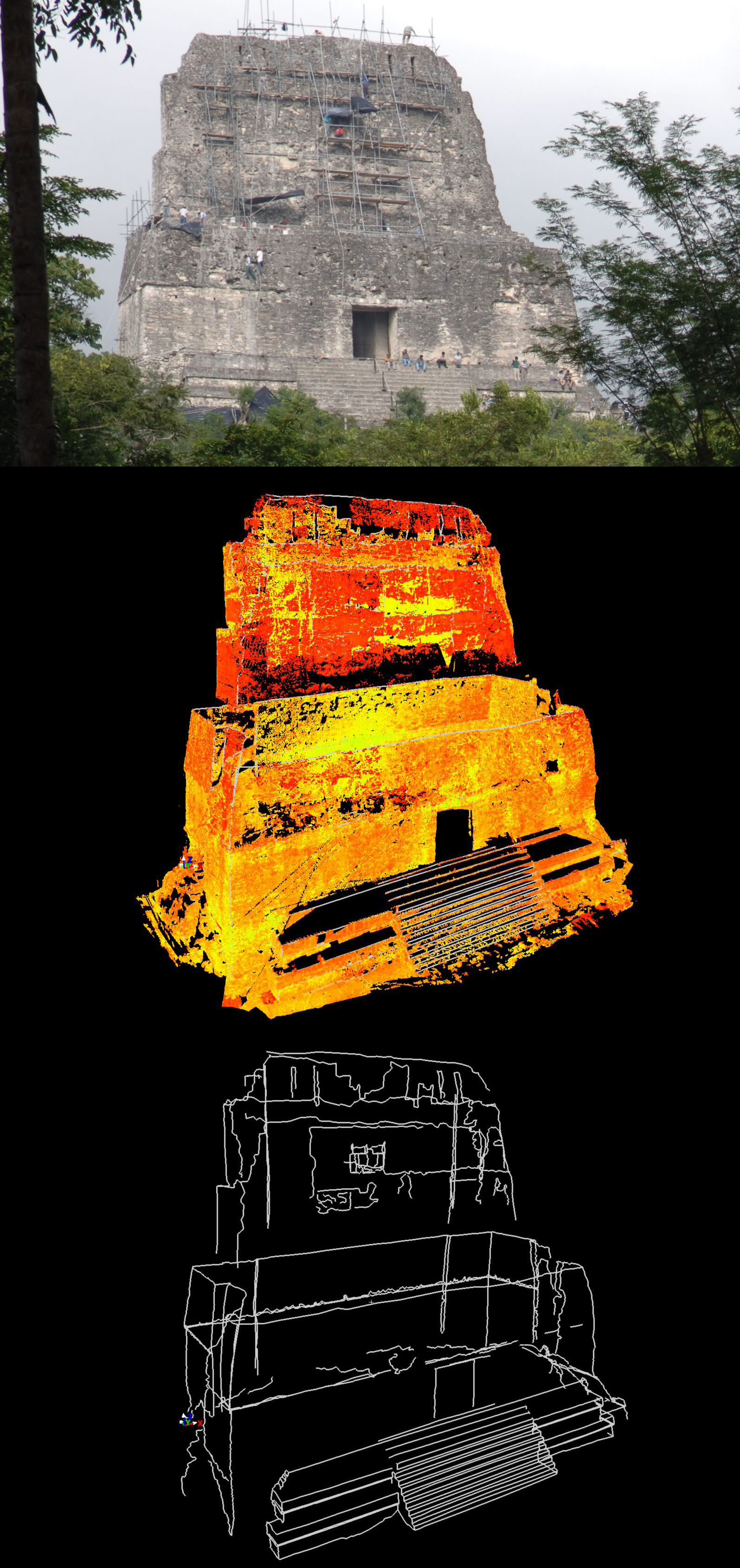 Temple IV is the tallest structure at Tikal, standing around 70 meters in height. Yik'in Chan Kawil, son of Jasaw, commissioned Temple IV in the mid-8th century. Two carved wooden lintels from its summit vault, which were taken to Sweden in the early 20th century, record a long count date translating to 741 CE. A tomb has been found in the Temple, but evidence is inconclusive as to whether it contains the remains of Yik'in Chan Kawil. Temple IV's 250,000 cubic yards of stone remain largely unexcavated and unrestored, with only the upper third portion and roofcomb rising above the jungle canopy. Temple IV is currently in the process of restoration.